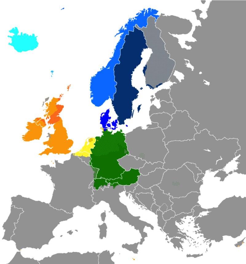 The present-day distribution of the Germanic languages in Europe: North Germanic languages Icelandic Faroese Norwegian Danish Swedish West Germanic languages Scots English Frisian Dutch Low German German Dots indicate areas where multilingualism is common.